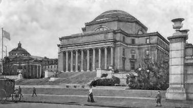 Low Plaza c1905